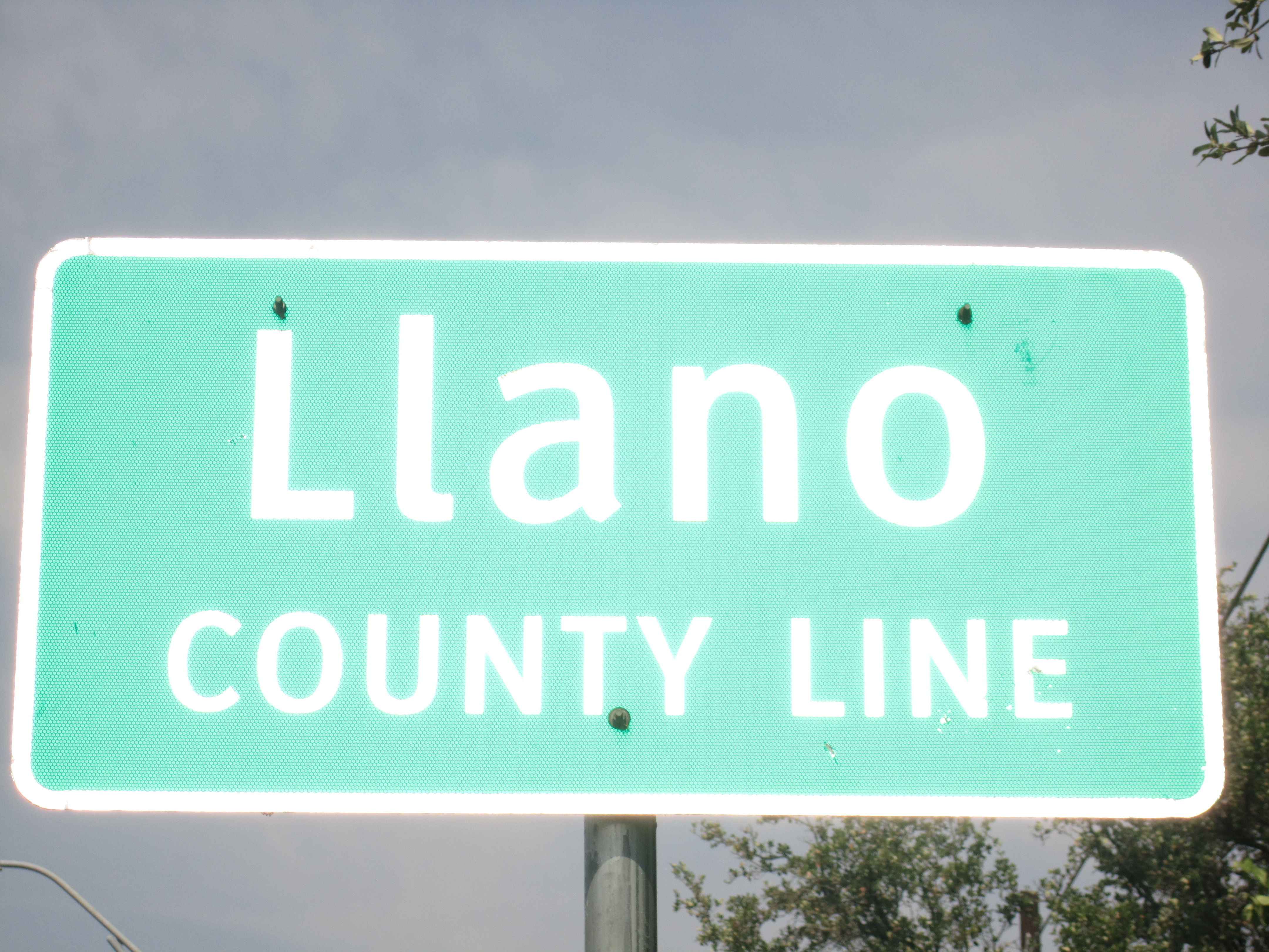 I took photo in Kingland, TX.